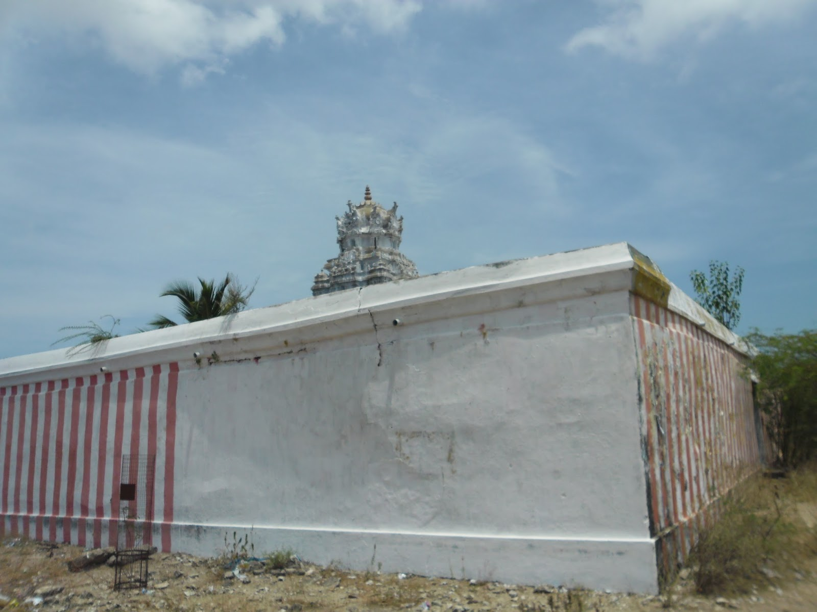 Sri Ekantha Ramar Temple